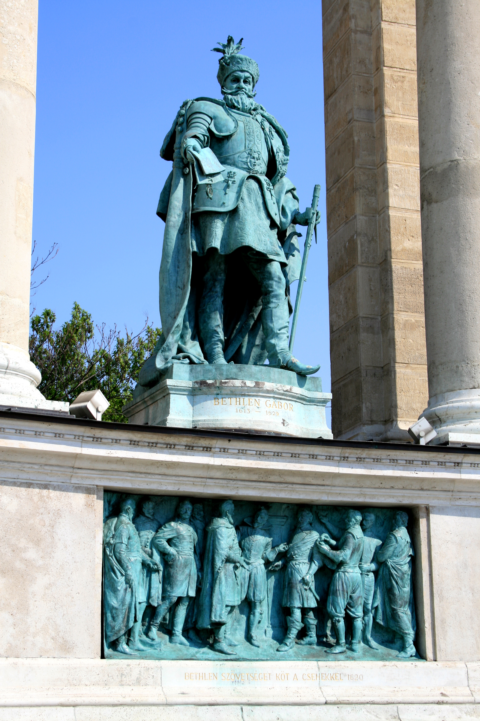 Statue of Gabriel Bethlen or Bethlen Gábor, Millenium Monument on Heroes' square, Budapest, Budapest, Hungary